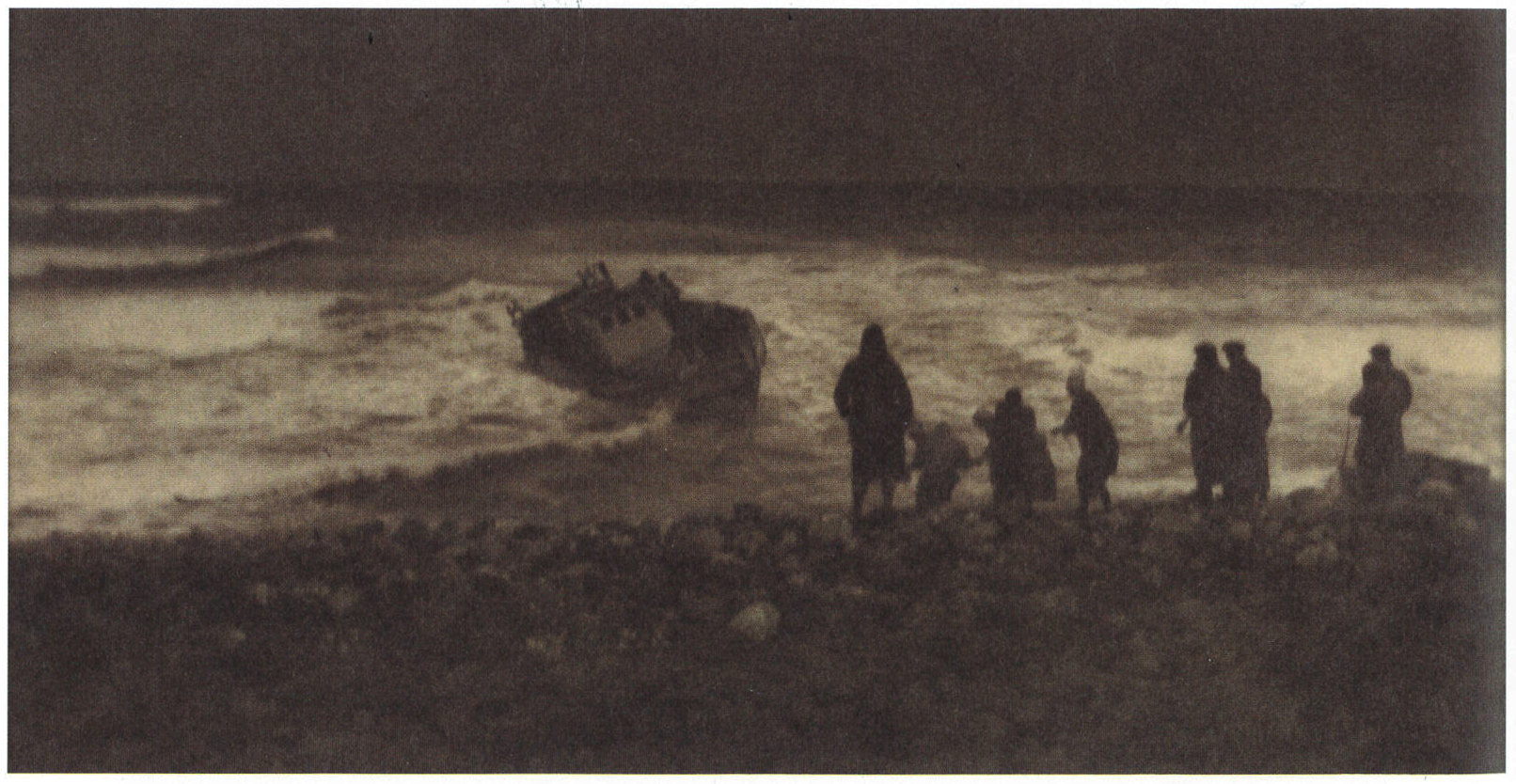 Photograph taken in January 1929 by Teikō Shiotani (鹽谷定好, 1899–1988) of a shipwreck off Akasaki, in what is now Kotoura, Tottori Prefecture, Japan. Original title: 破船 (Hasen); a title that has since been used consistently for this (and at least one other photograph Shiotani took on the same occasion). In English, it has been titled "Scrapped boat", "Shipwreck", and "Wrecked boat".